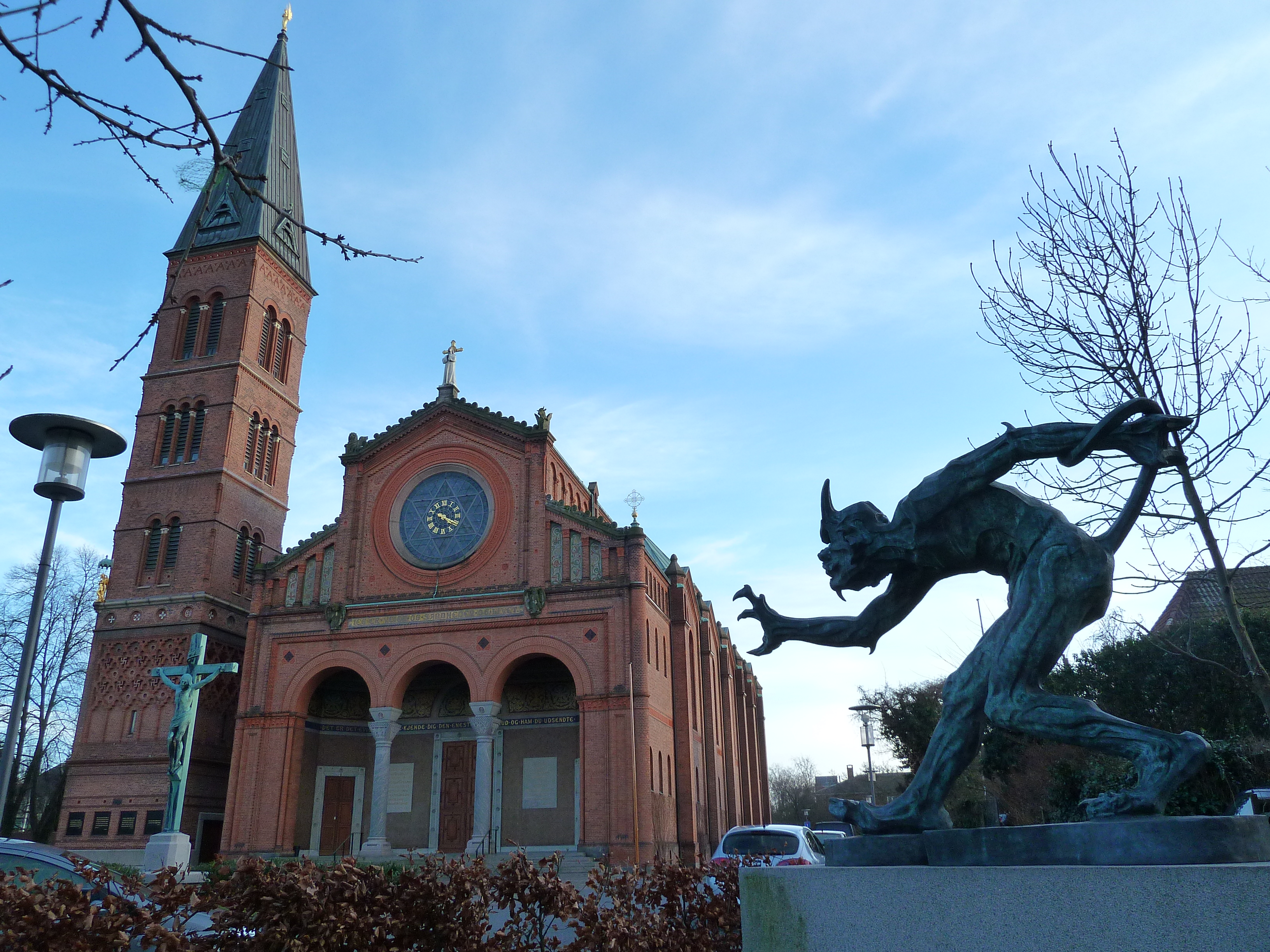 The troll statue outside the Jesus Church in Copenhagen, Denmark